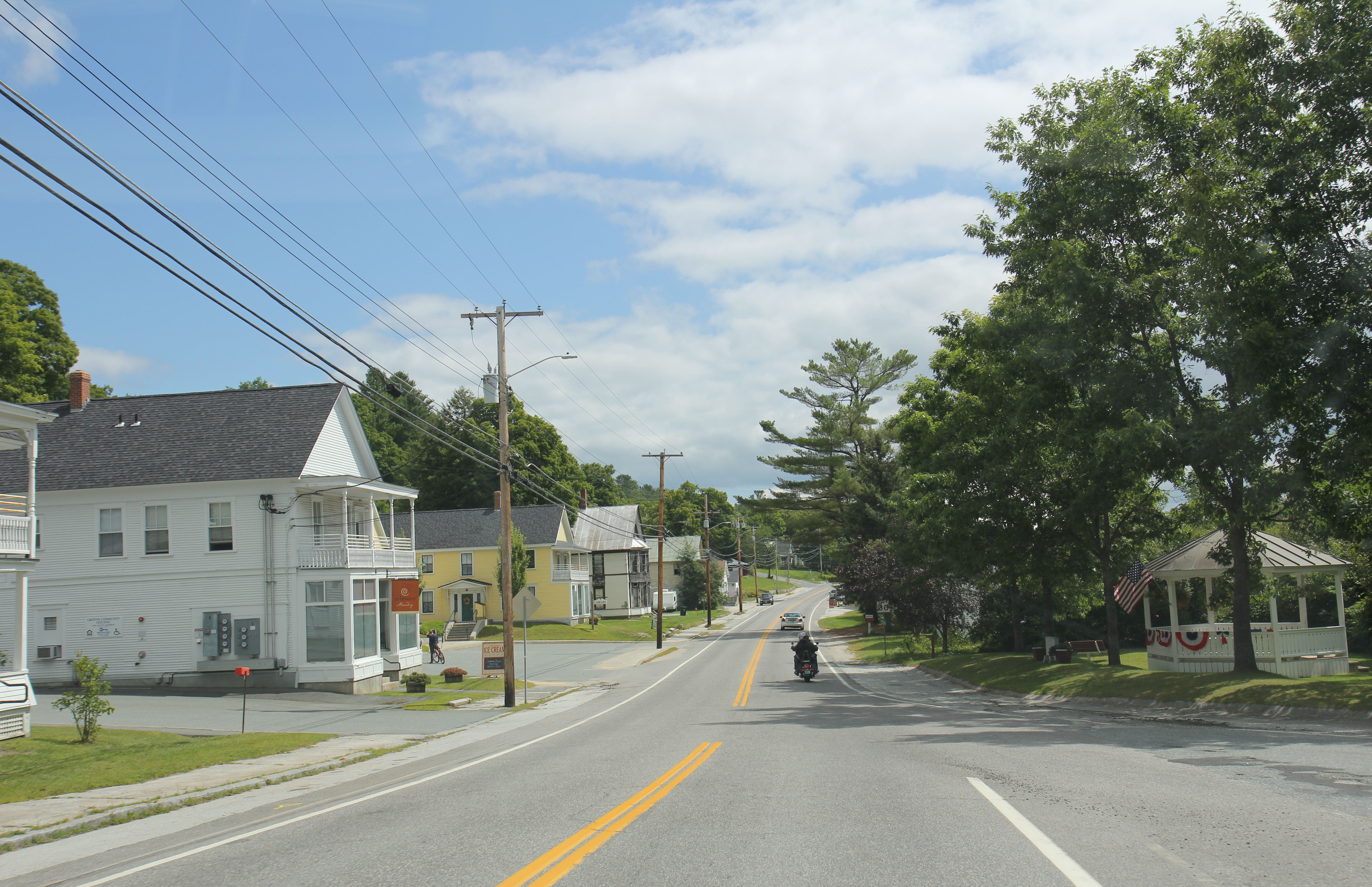 Groton, Vermont, a CDP, on US302